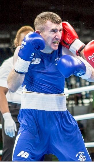 Day 3 at the 2016 Summer Olympics. Boxing 49 kg. Round of 16, Samuel Carmona (Spain) vs Paddy Barnes (Ireland)